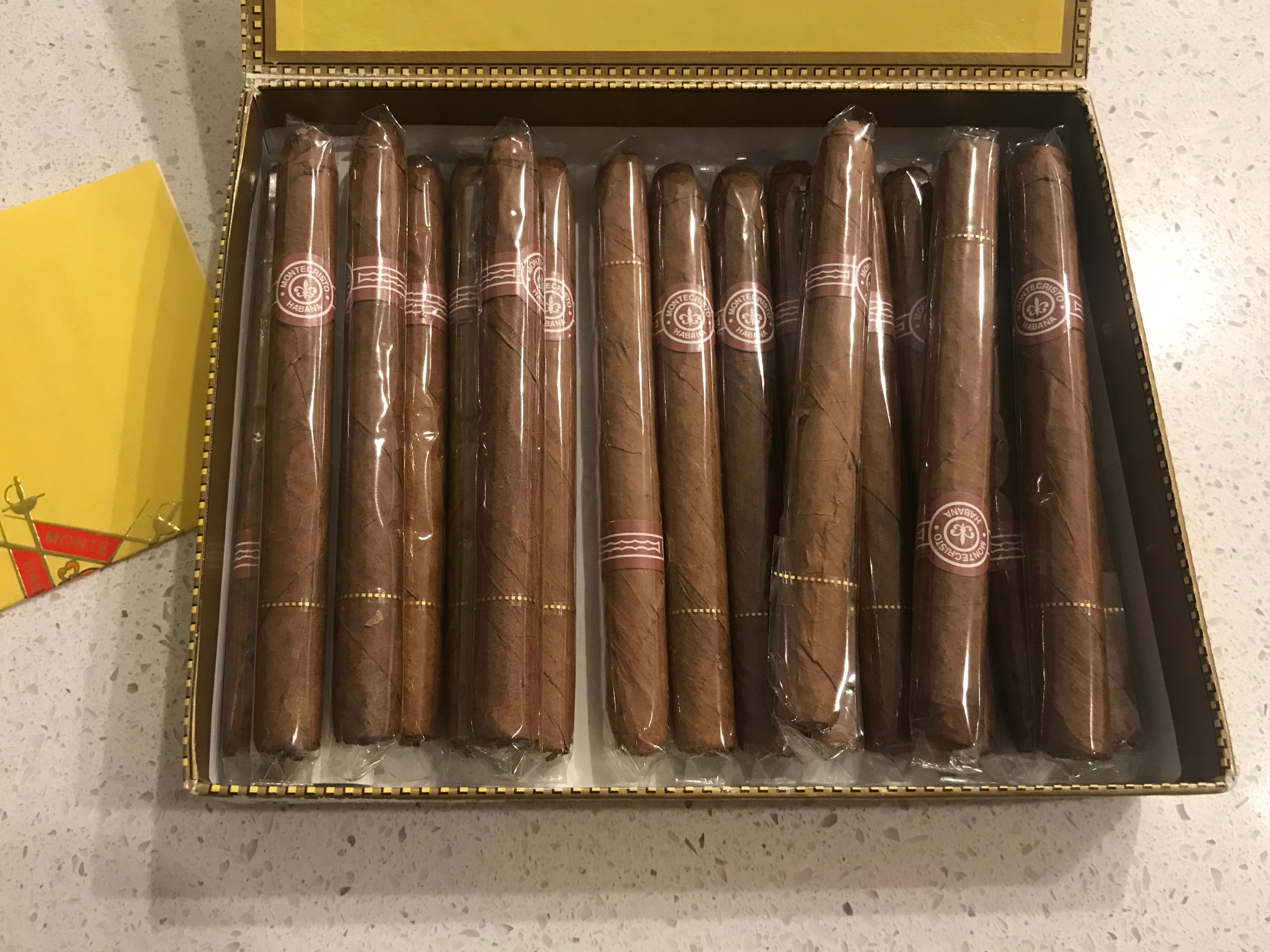 Puritos (Cuban Cigar)